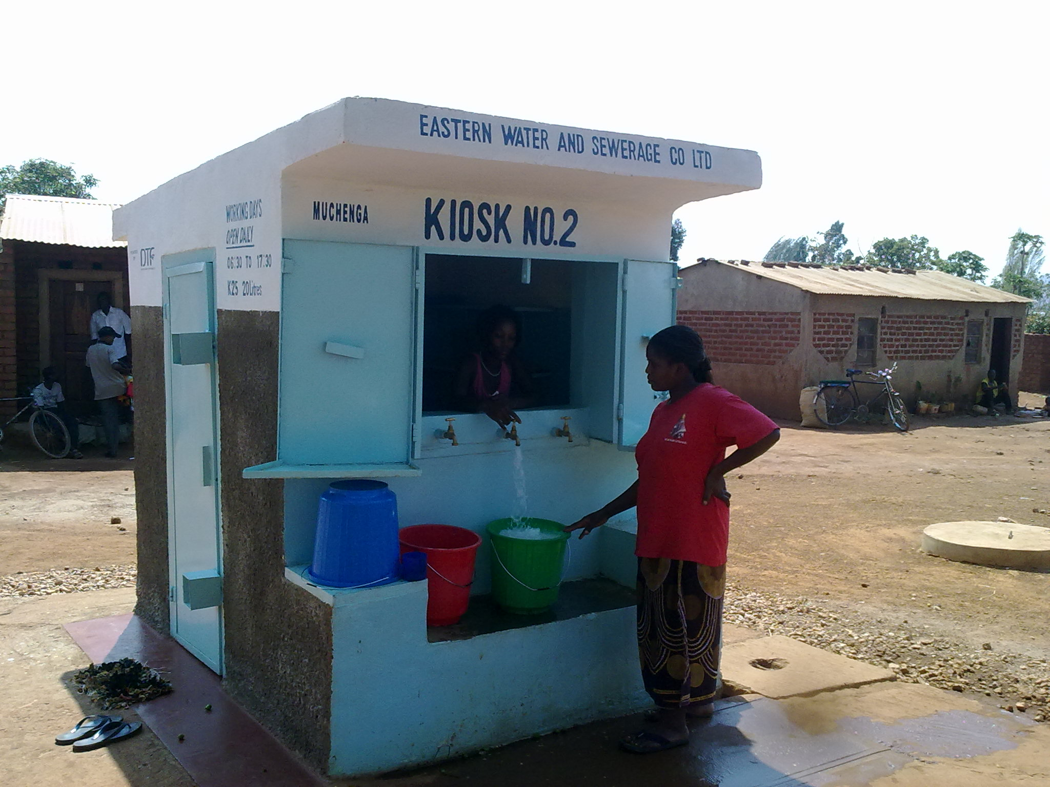 water kiosks constructed to provide safe drinking water for poor households in peri urban areas of Chipata